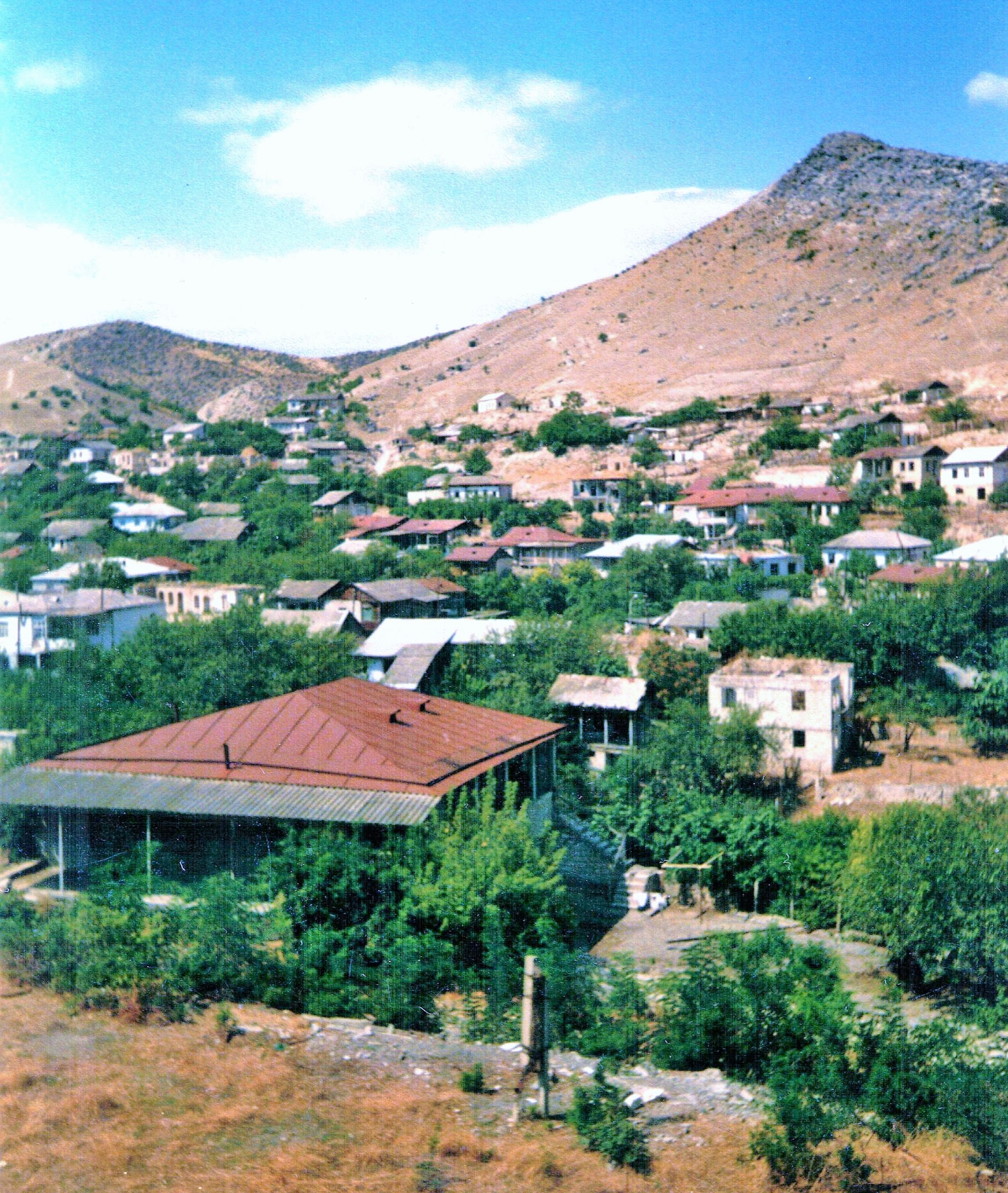 View of town Mardakert